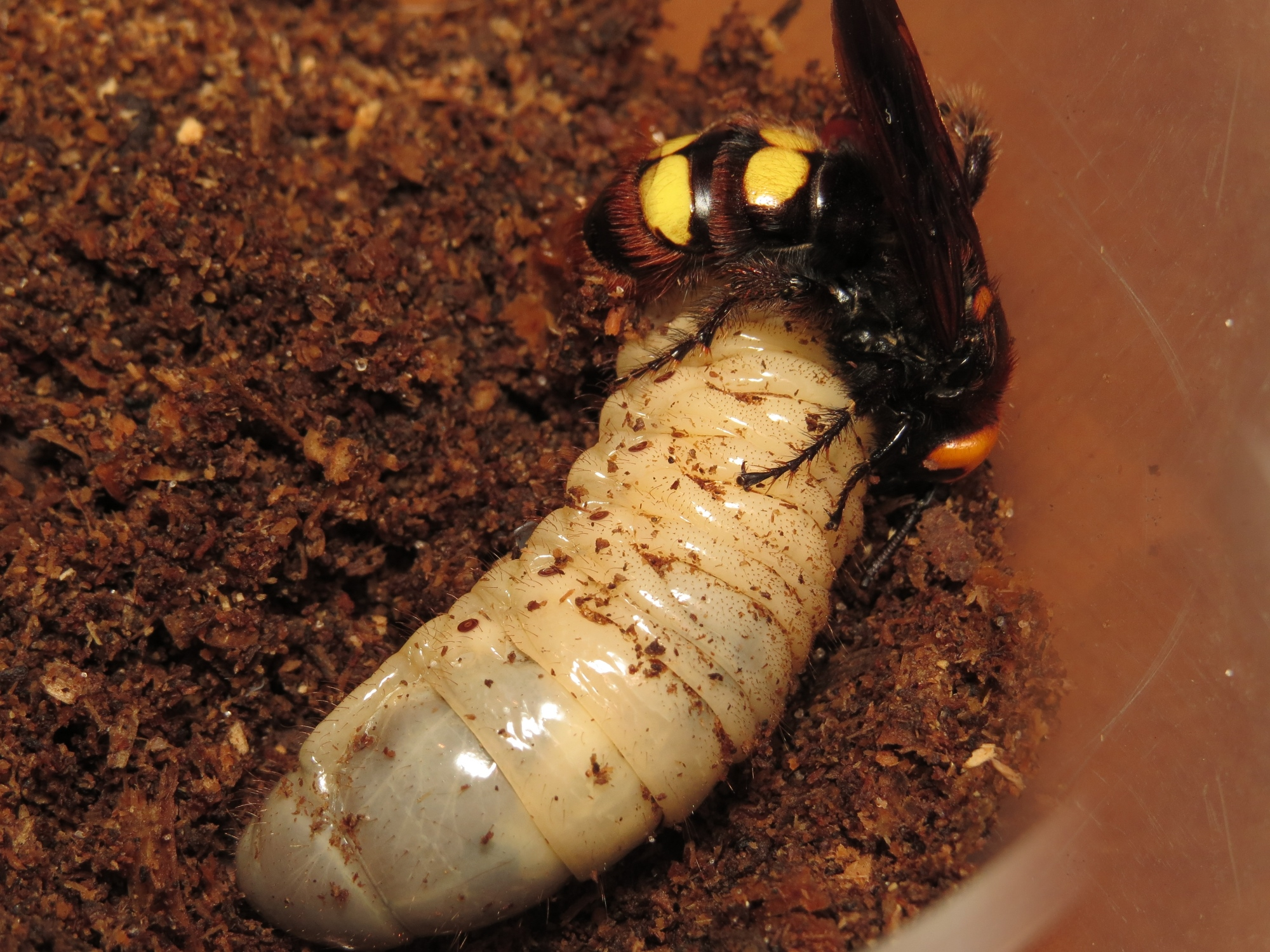 The fertilized female Megascolia maculata attacks larva rhinoceros beetle Oryctes nasicornis, to paralyze it and lay an egg.